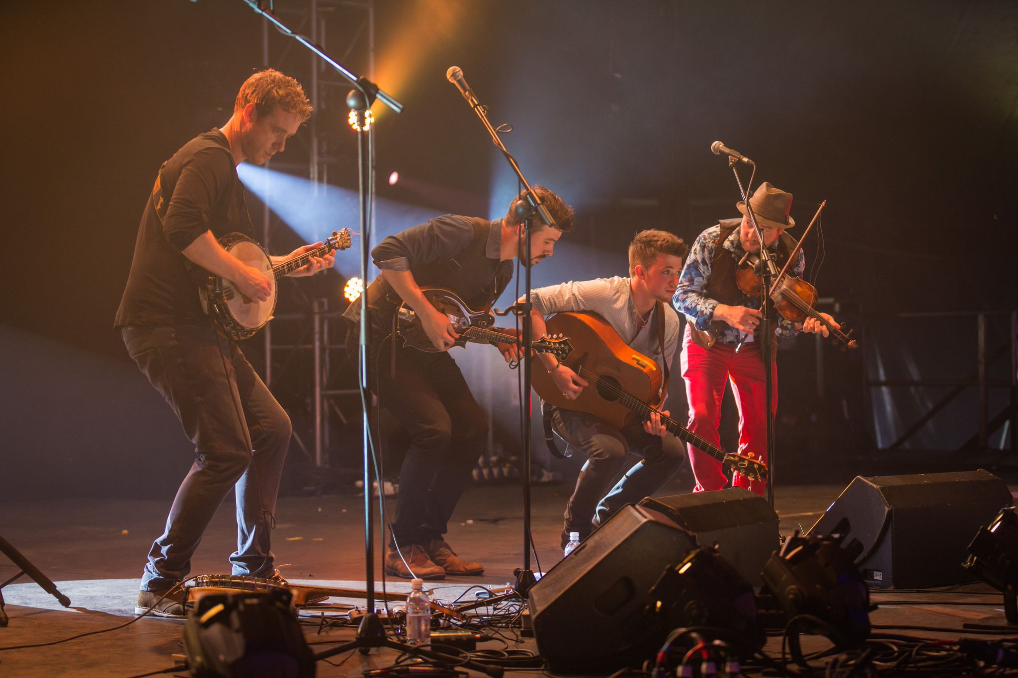 We Banjo 3 in Liverpool